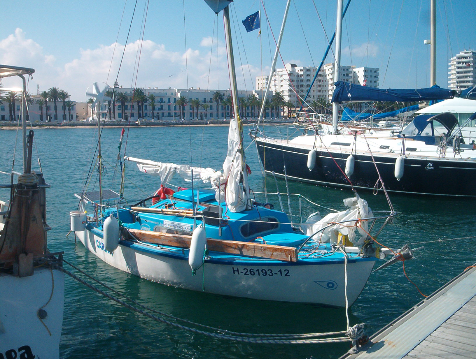 Carina sailboat in the Almerimar marina.